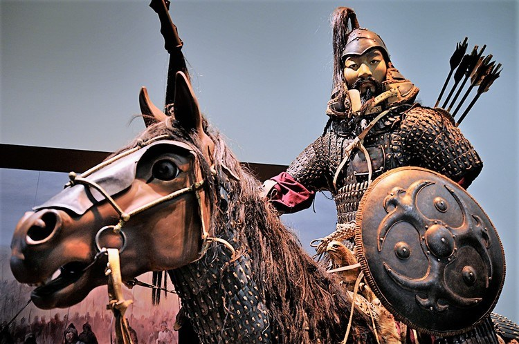 A recreation of a warrior from the Mongol empire on horseback. (The Art Science Museum, Singapore)